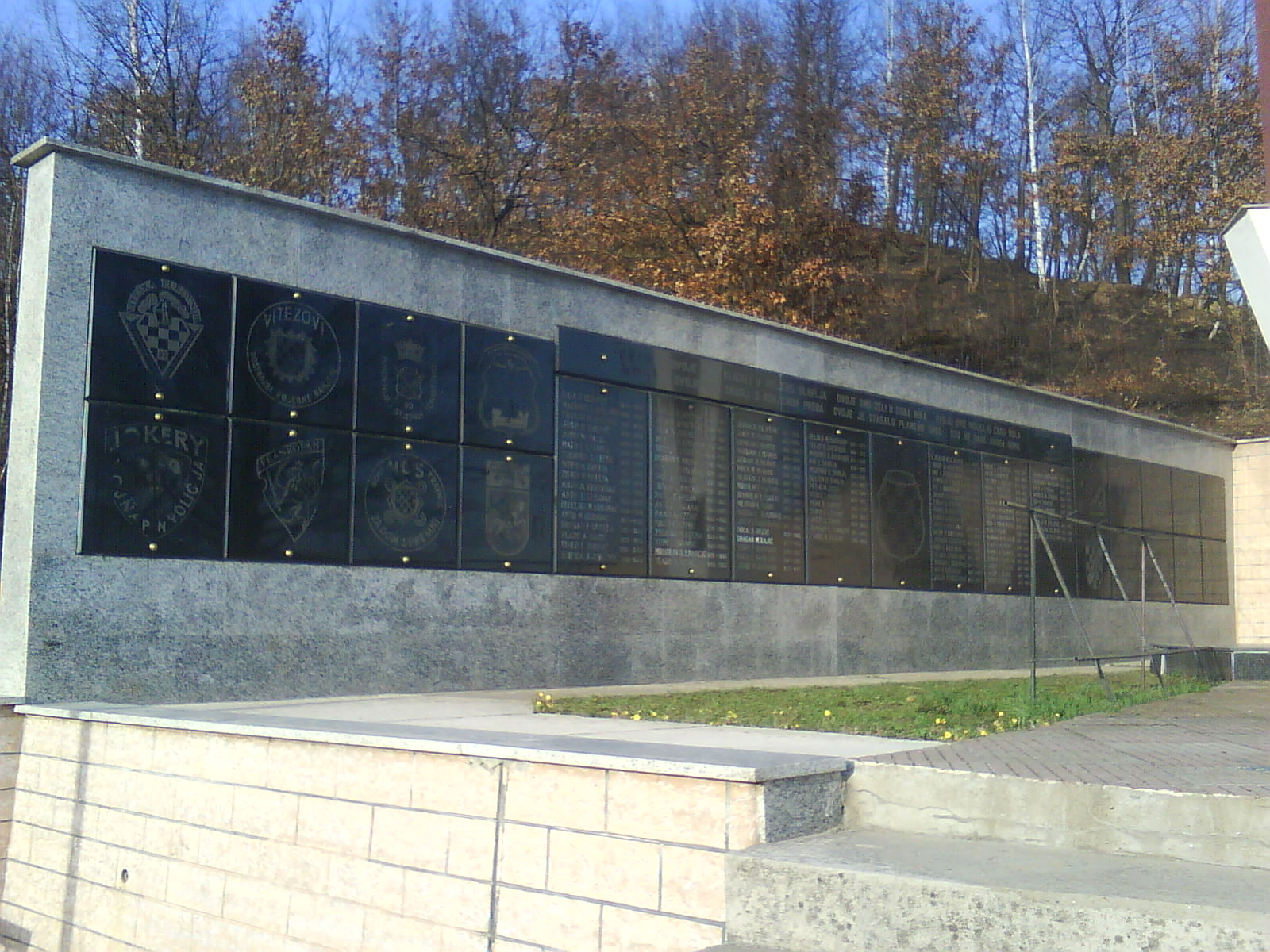 Monument in a tribute of victims from Križančevo selo killings,a war crime comitted over Croats by Bosniak troops